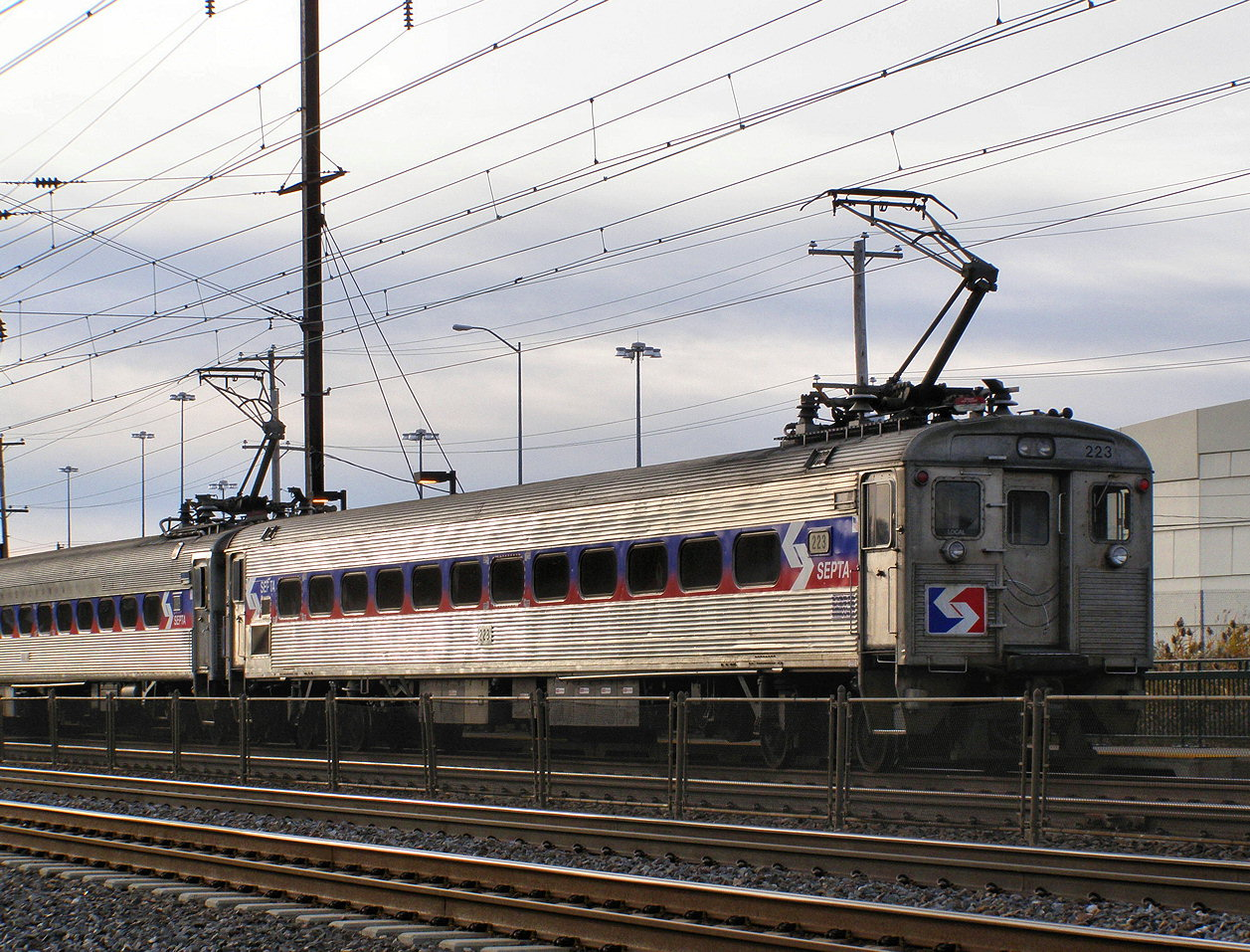 SEPTA Silverliner III making a stop at the Cornwells Heights station on the Trenton Line.